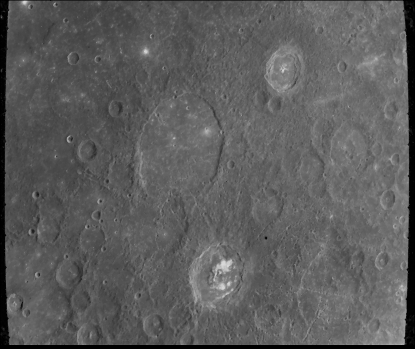 Image Number: 0000214GMT: 1974:088:22:58:08Start Time: 1974-03-29T22:58:08.240ZLatitude: -1.98° to 16.4°Longitude: 137.97° to 158.21°Resolution (meters per pixel): 722Incidence Angle: 49.42°Emission Angle: 29.91°Phase Angle: 77.42°